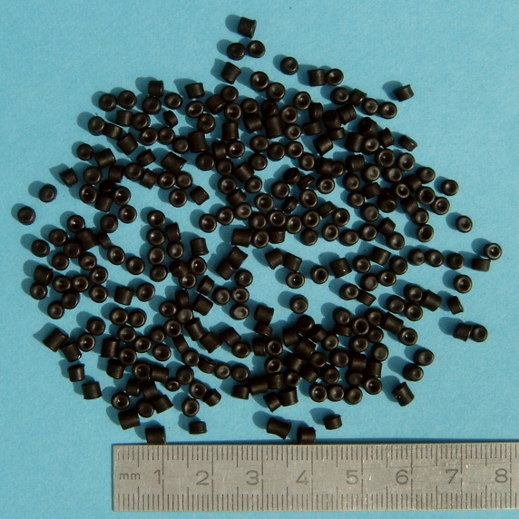 granular low density polyethylene (PE-LD) with carbon black as UV stabilizer